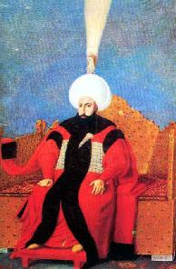 Mustafa IV